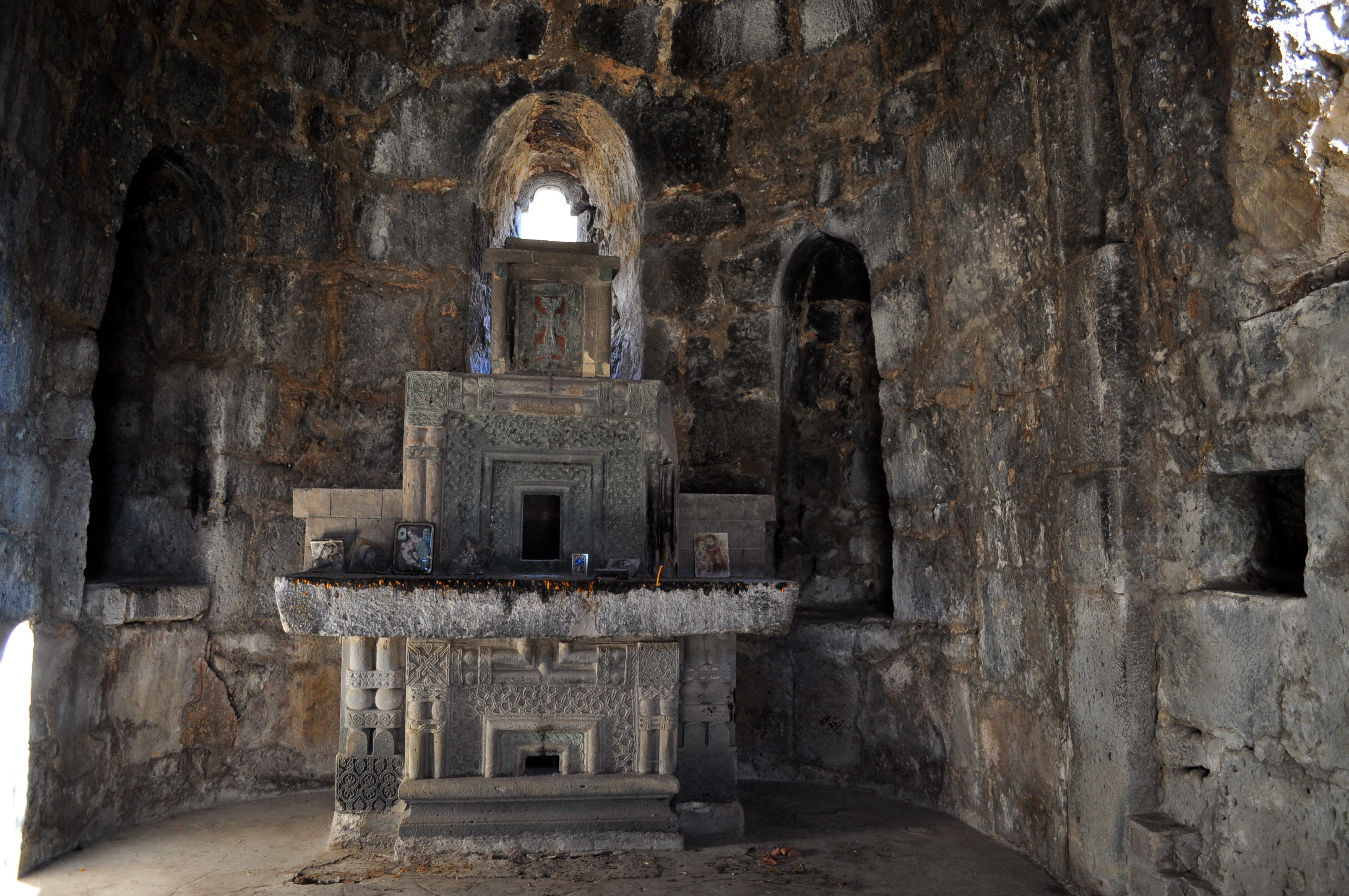 Monastery complex of Holy Trinity, 13c.